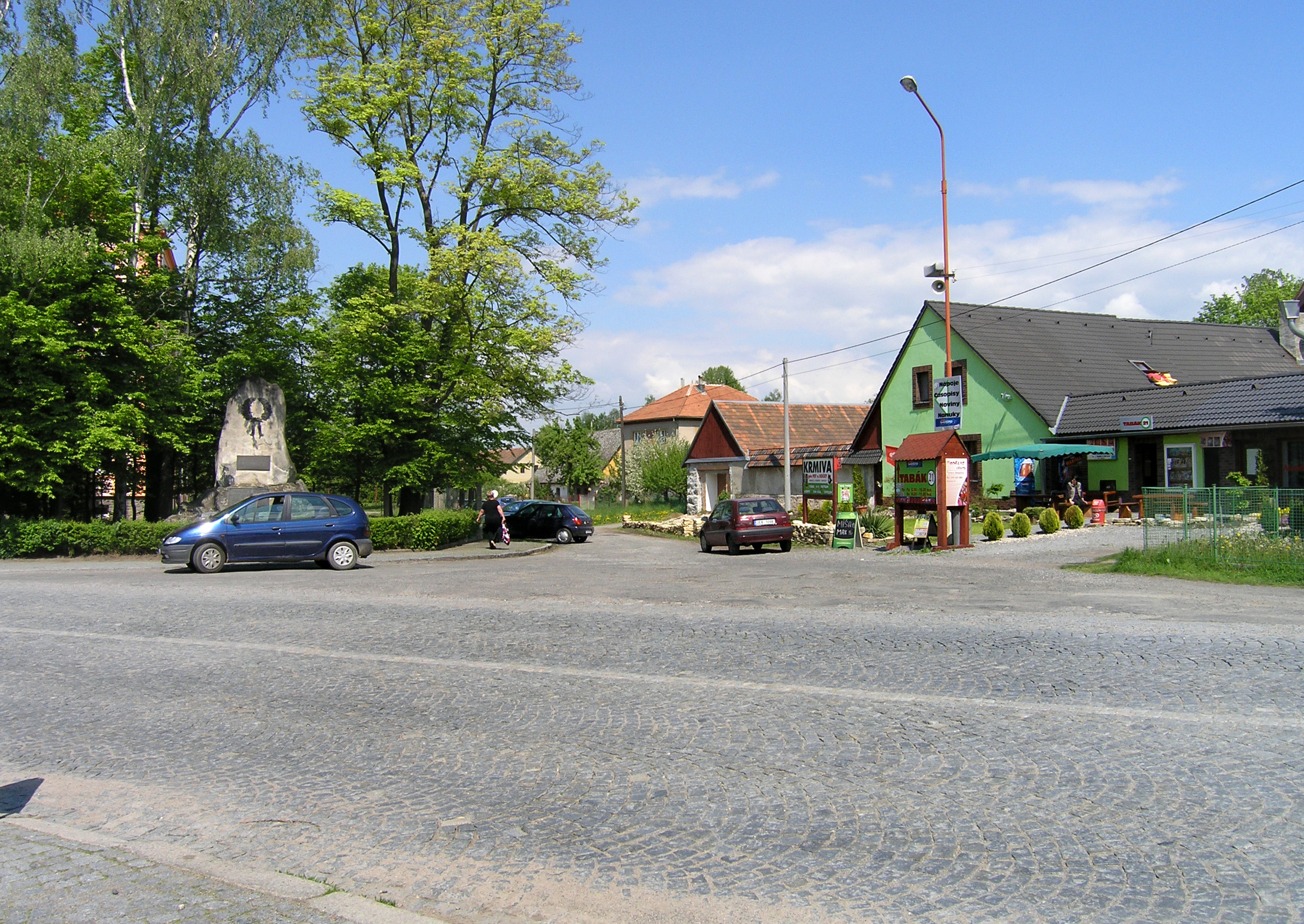 Small square in Prosetín, Czech Republic